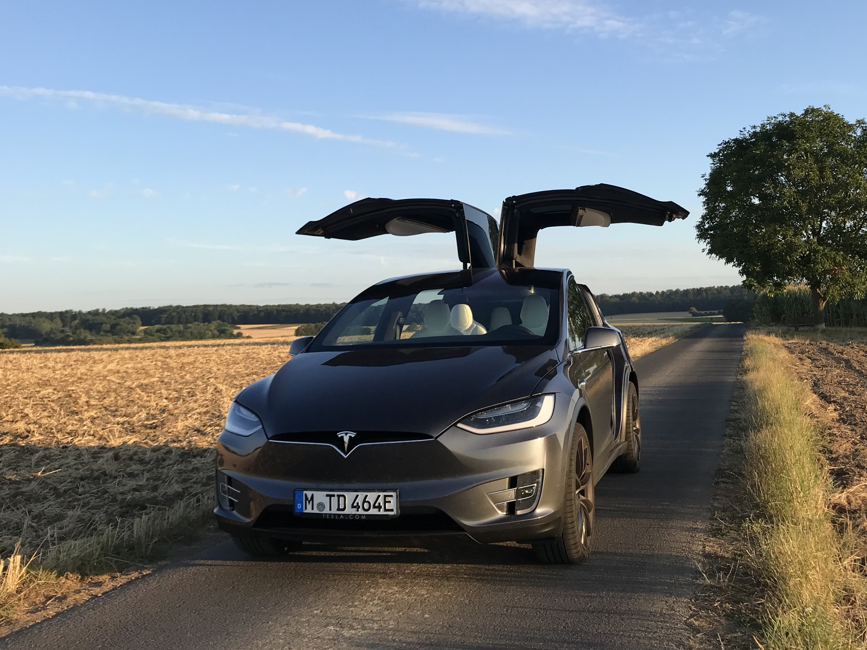 Tesla Model X P100DL with open falcon wing doors